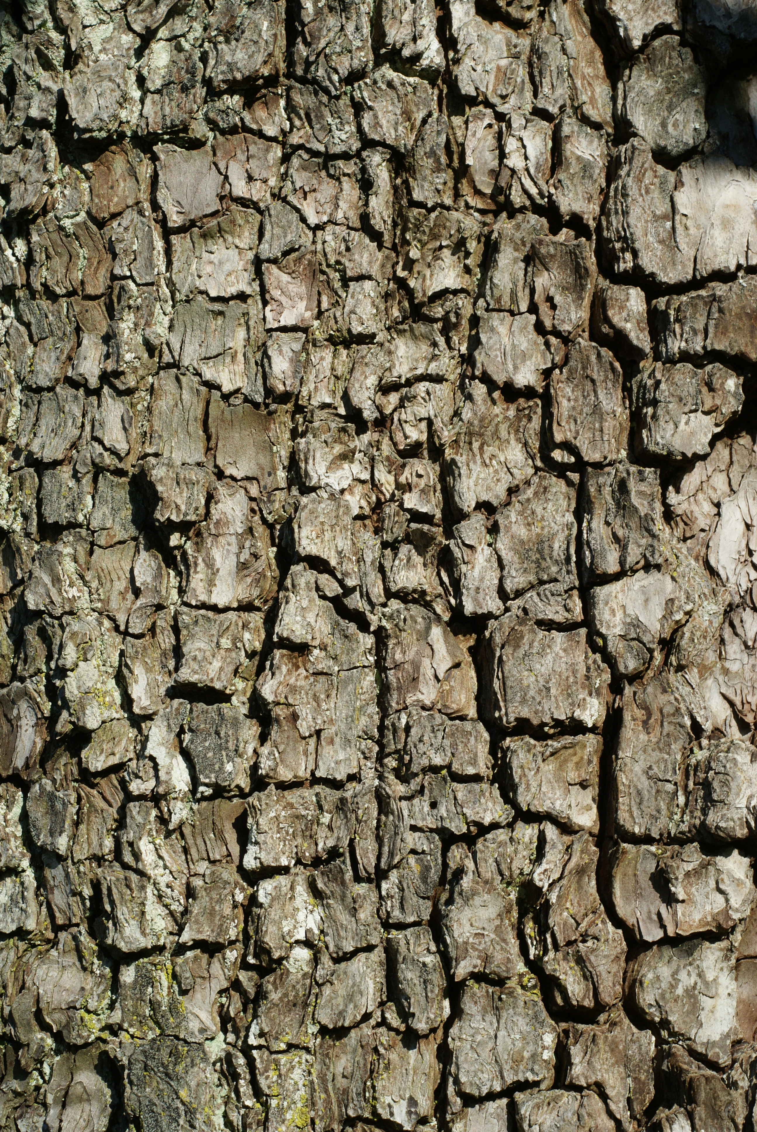 Bark of "Kalchbühler", a pear variety of the Zürichsee region (Switzerland).